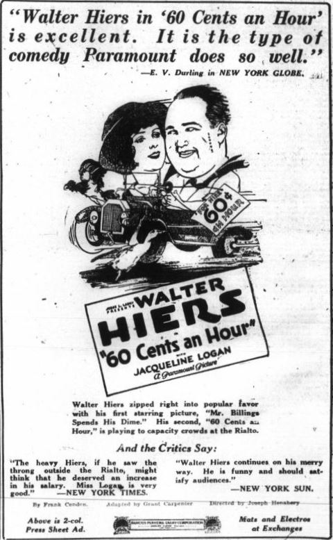 Advertisement for the American comedy film Sixty Cents an Hour (1923), on page 26 of the May 17, 1923 Variety.